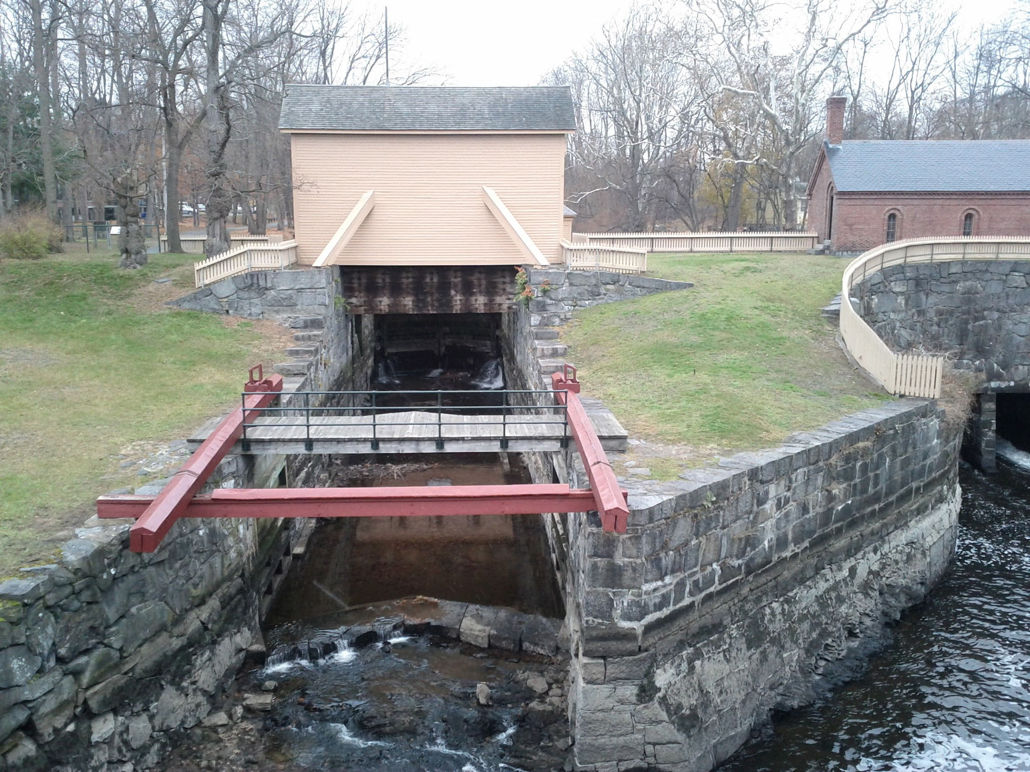 Lowell, MA is full of canals and locks